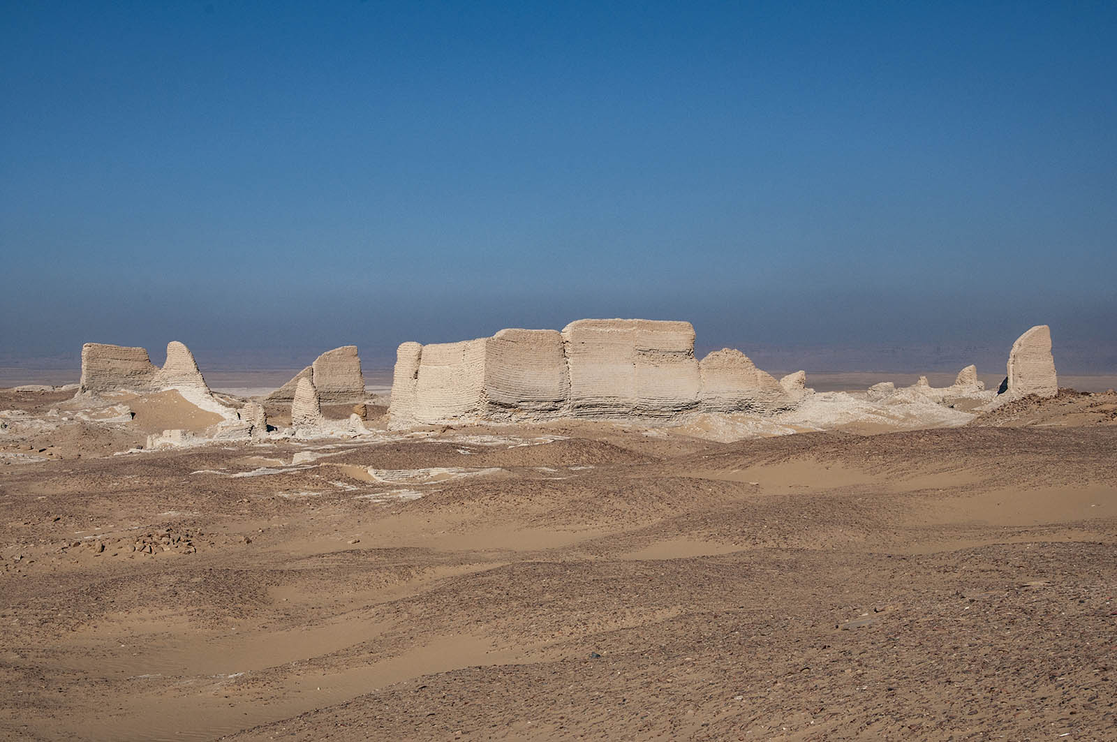 Soknopaiou Nesos: the temenos walls from South East